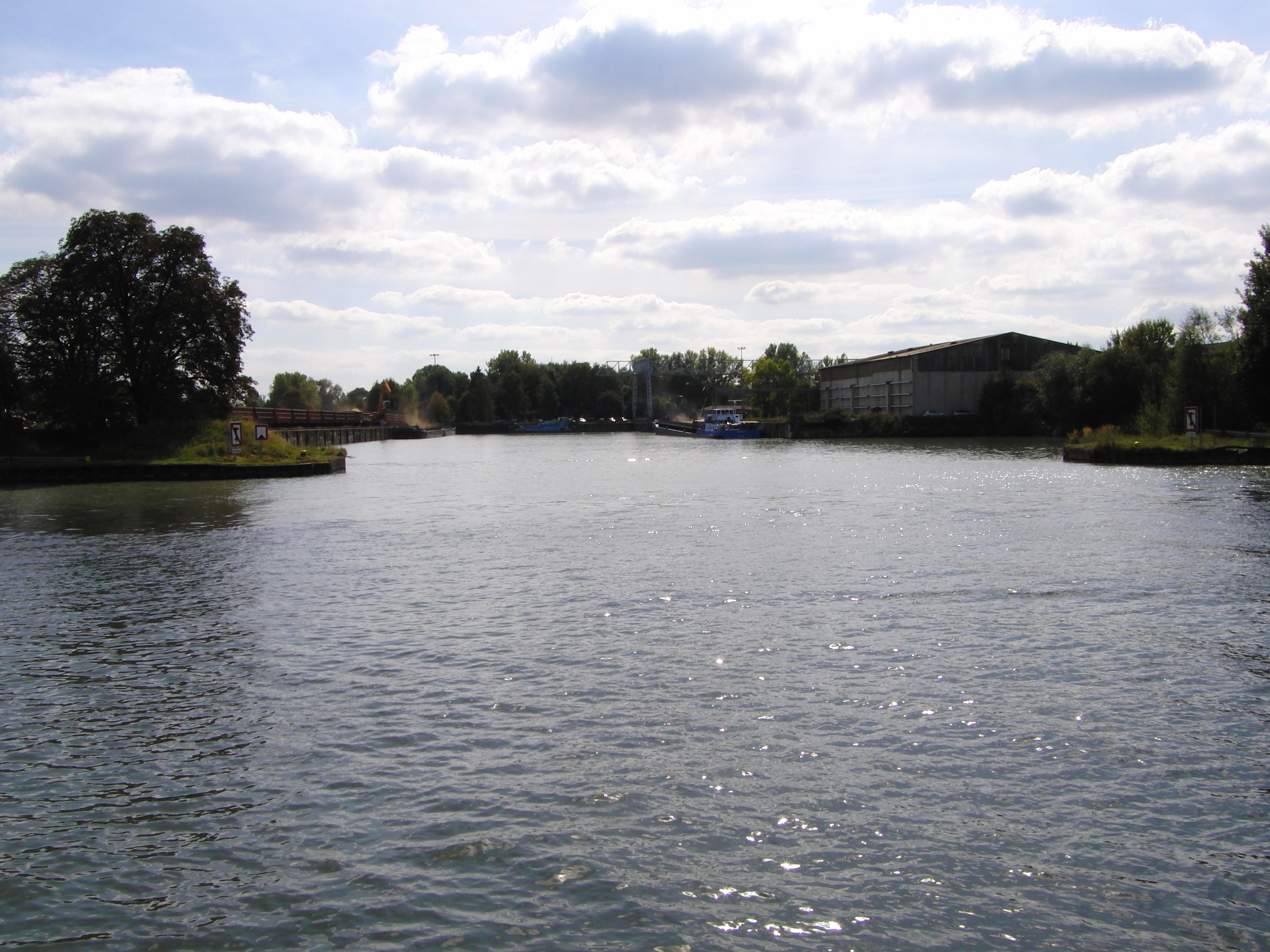 Port of Peine